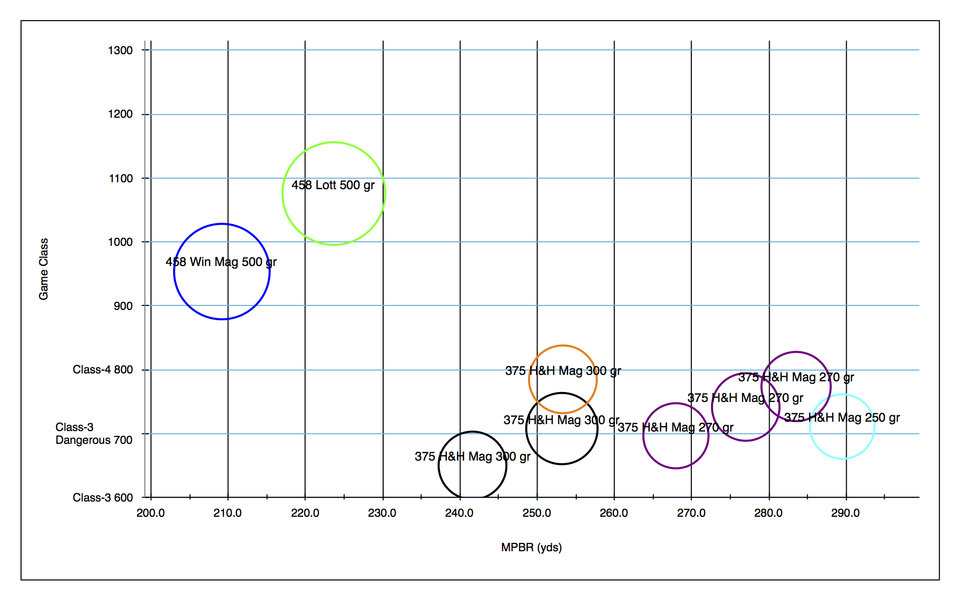 A chart of the Game Class vs 6 inch Maximum Point Blank Range comparing various 375 Magnum cartridges and muzzle velocities with 458 Winchester Magnum and 458 Lott cartridges. The circle sizes are proportional to recoil velocity. Other calibre's for comparison. Created with the CartridgeChooser iPad App.